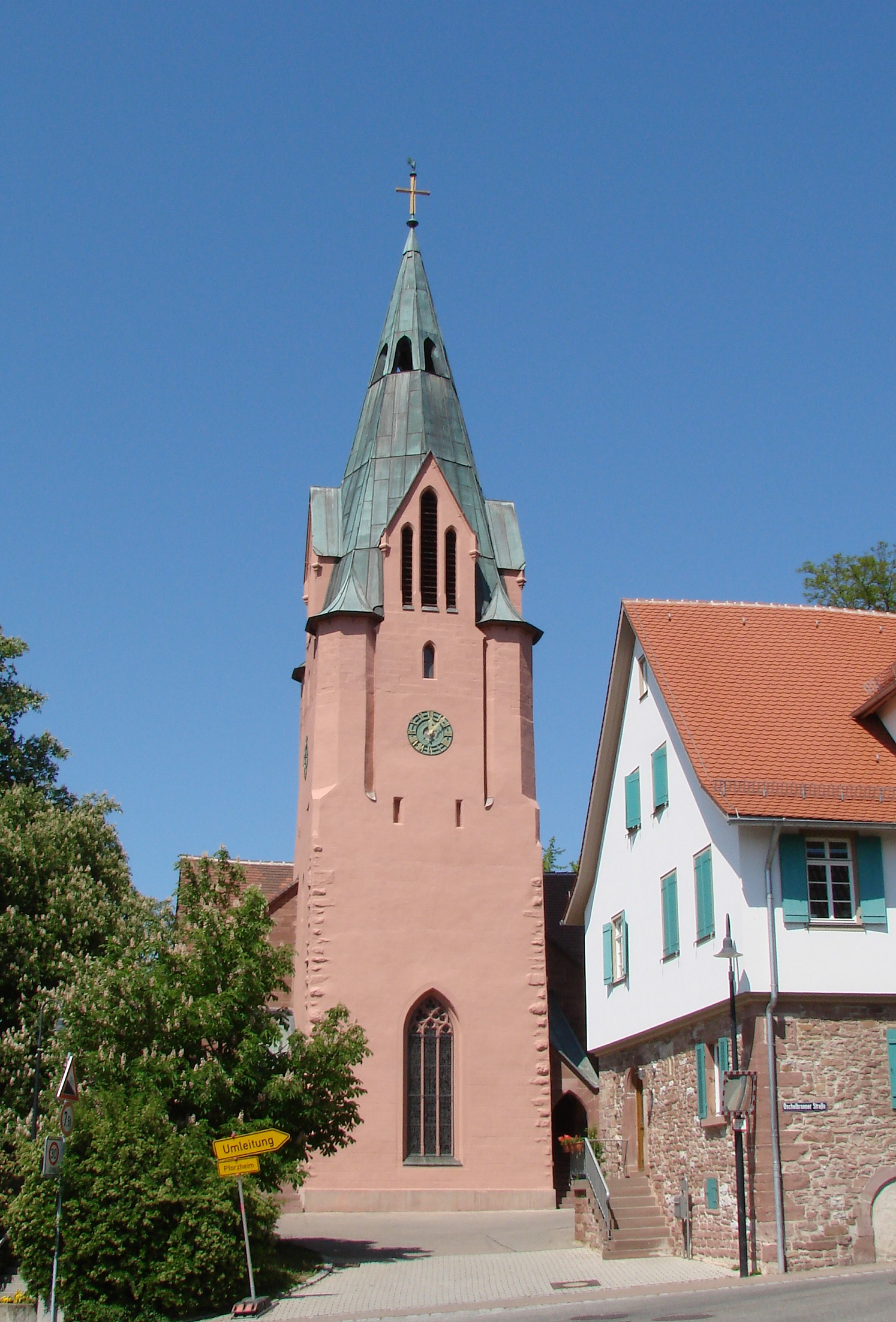 Wurmberg, Germany, protestant parish church